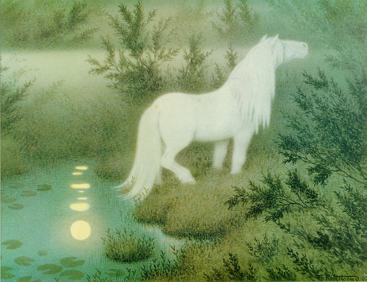 The Nix as a brook horse by Theodor Kittelsen, a depiction of the Nix as a white horse